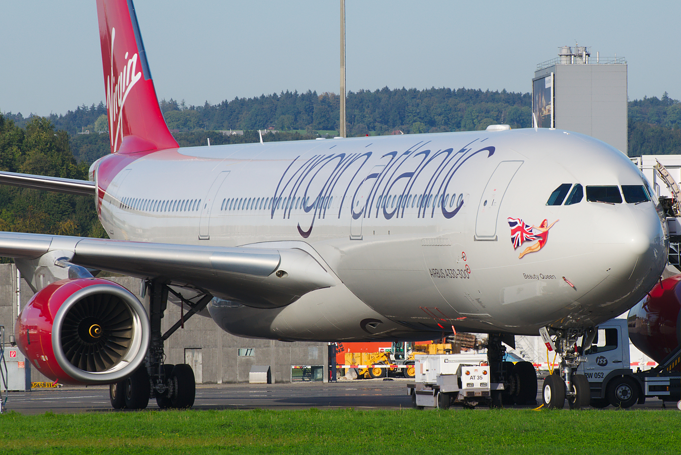 A Virgin A330 "Beauty Queen" in Zurich Kloten